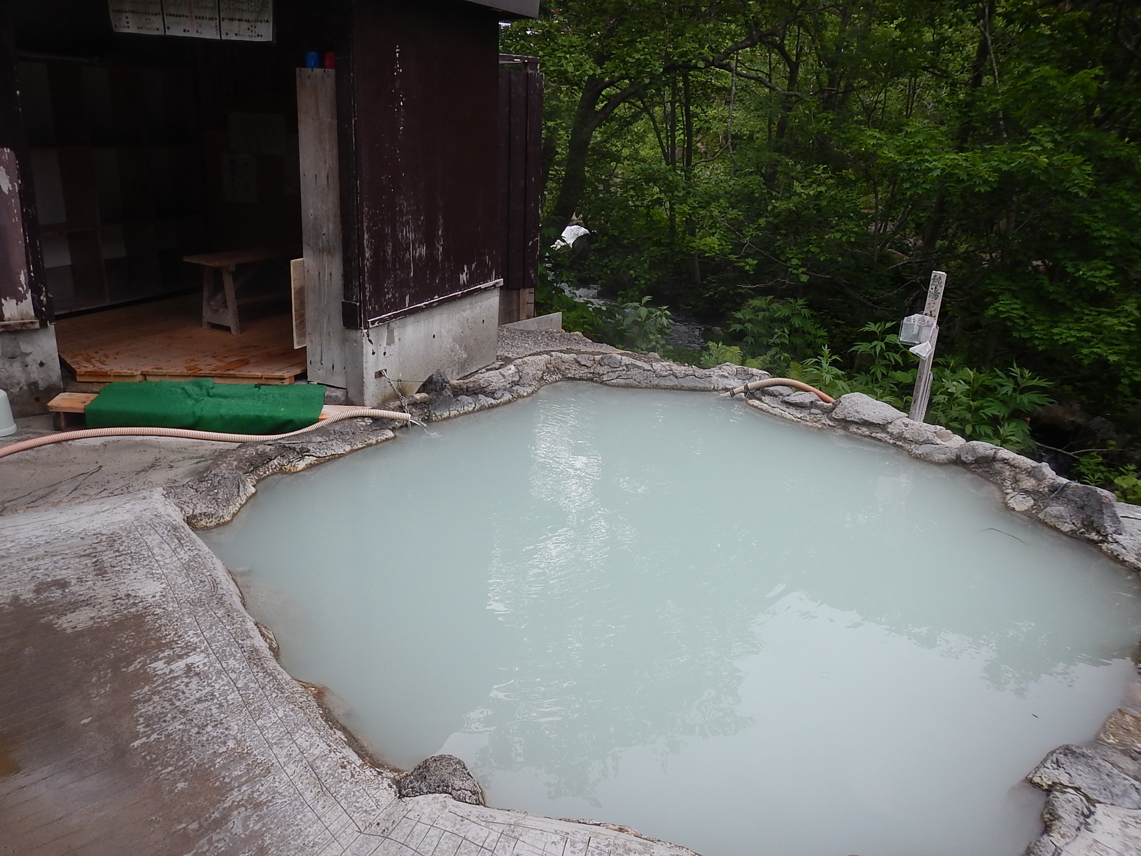 Kumanoyu (lit. "hot spring of bears") at Rausu Onsen, Hokkaido, Japan